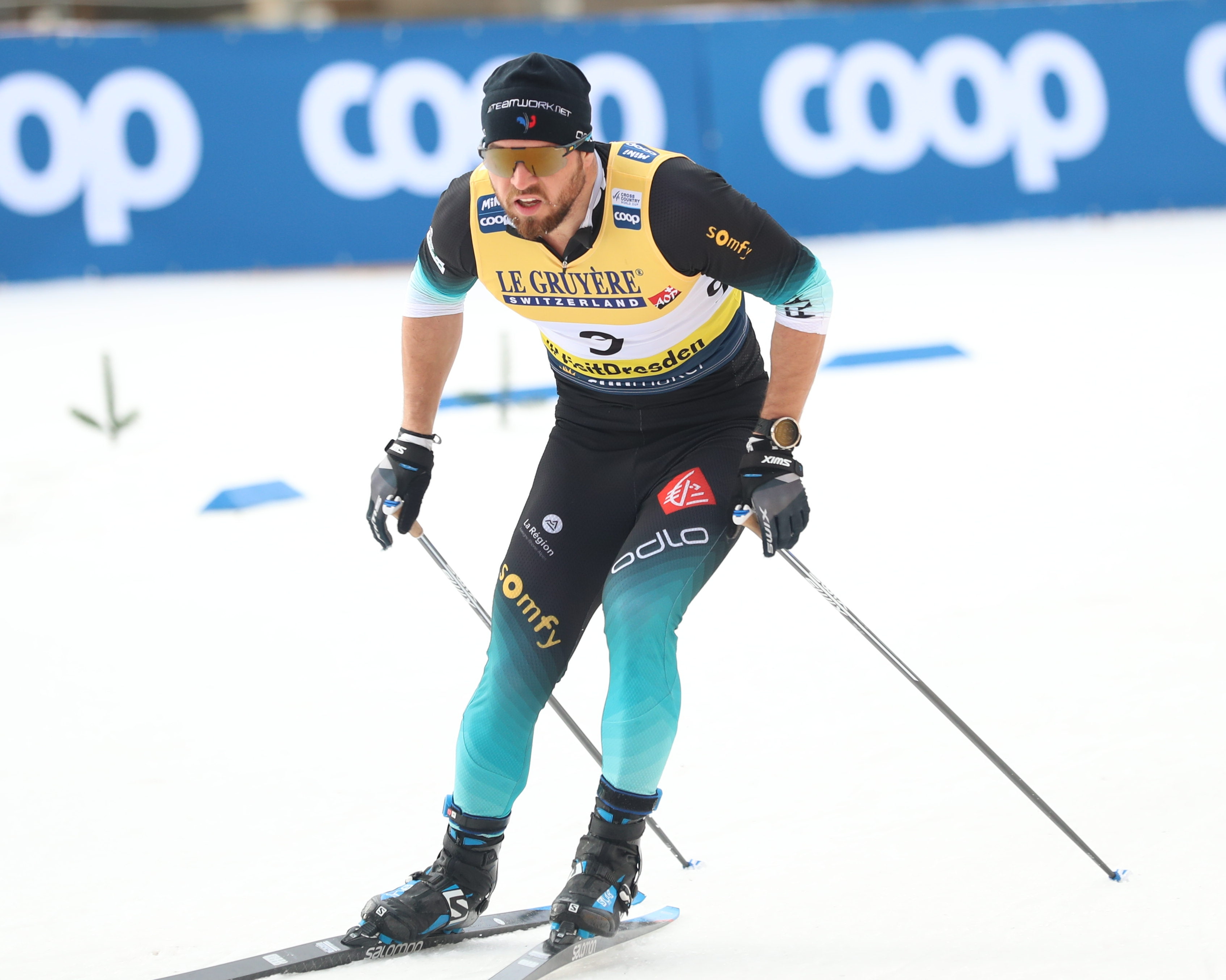 Men's Qualification at the FIS Cross-Country World Cup Dresden 2019 (1.6 km Free Sprint)